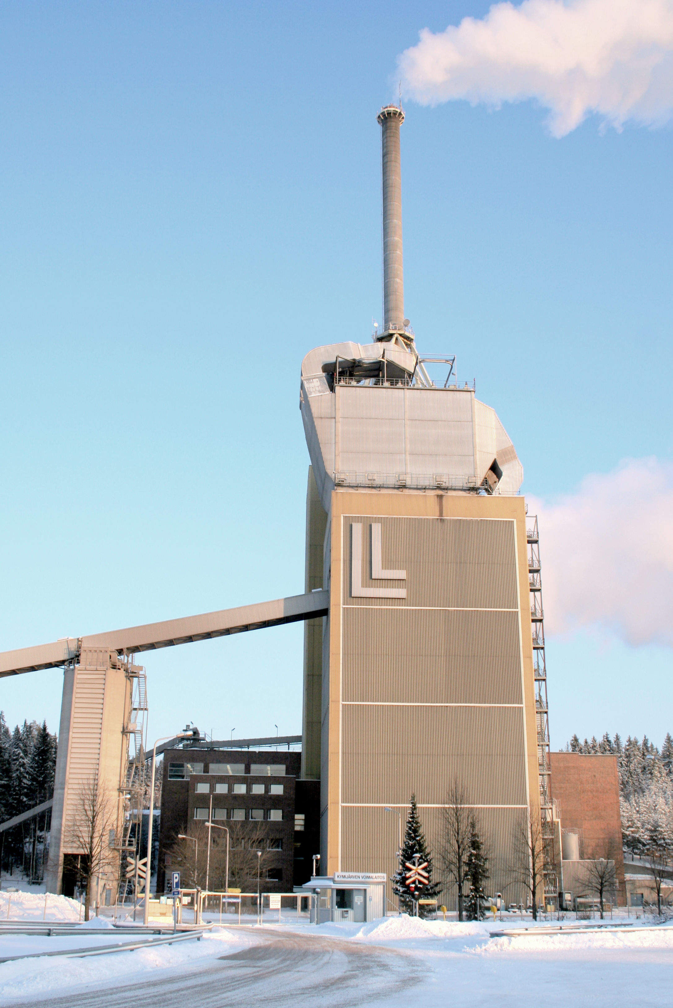 Combined heat and power plant of Kymijarvi (Kymijärvi) of Lahti Energia company , Lahti , Finland Canon EOS 350D, Olli-Jukka Paloneva, IMG_0653.JPG